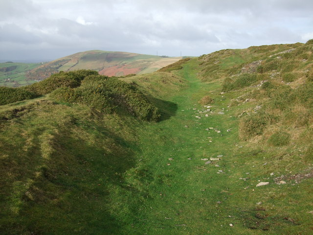 Earthwork ramparts of Mynydd y Gaer, near to Llannefydd, Conwy County, Wales. Remains of Iron Age hill fort. This is part of the outer bank and ditch which encircles the hill